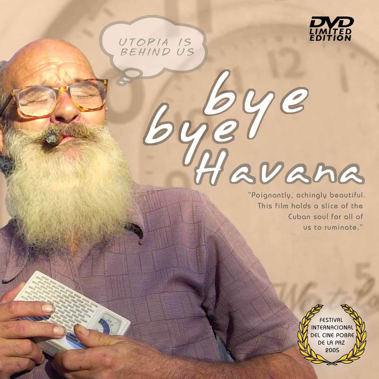 art work of film poster and 1st edition DVD donated by its creator J. Michael Seyfert to the public domain